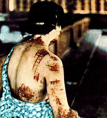 This is a victim of an atomic bomb. Original caption: "The patient's skin is burned in a pattern corresponding to the dark portions of a kimono worn at the time of the explosion."h Picture taken from Page: License: Generally, materials produced by Federal agencies are in the public domain and may be reproduced without permission. However, not all materials appearing on this website are in the public domain. Some materials have been donated or obtained from individuals or organizations and may be subject to restrictions on use. - pages/privacy and use.html#copyright Photo by 都築正男(1892-1961),木村権一(1910?-1973) Sep.3. 1945. 広島第一陸軍病院(Hiroshima Dai-1 Army Hospital.) 宇品分院.